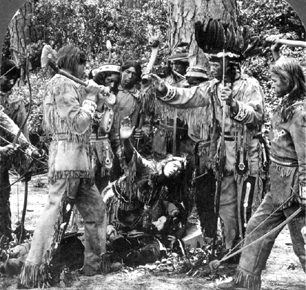 Copyrighted in 1910